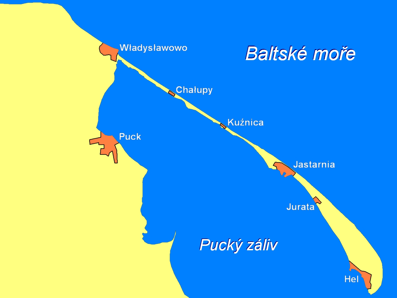 Hel spit map